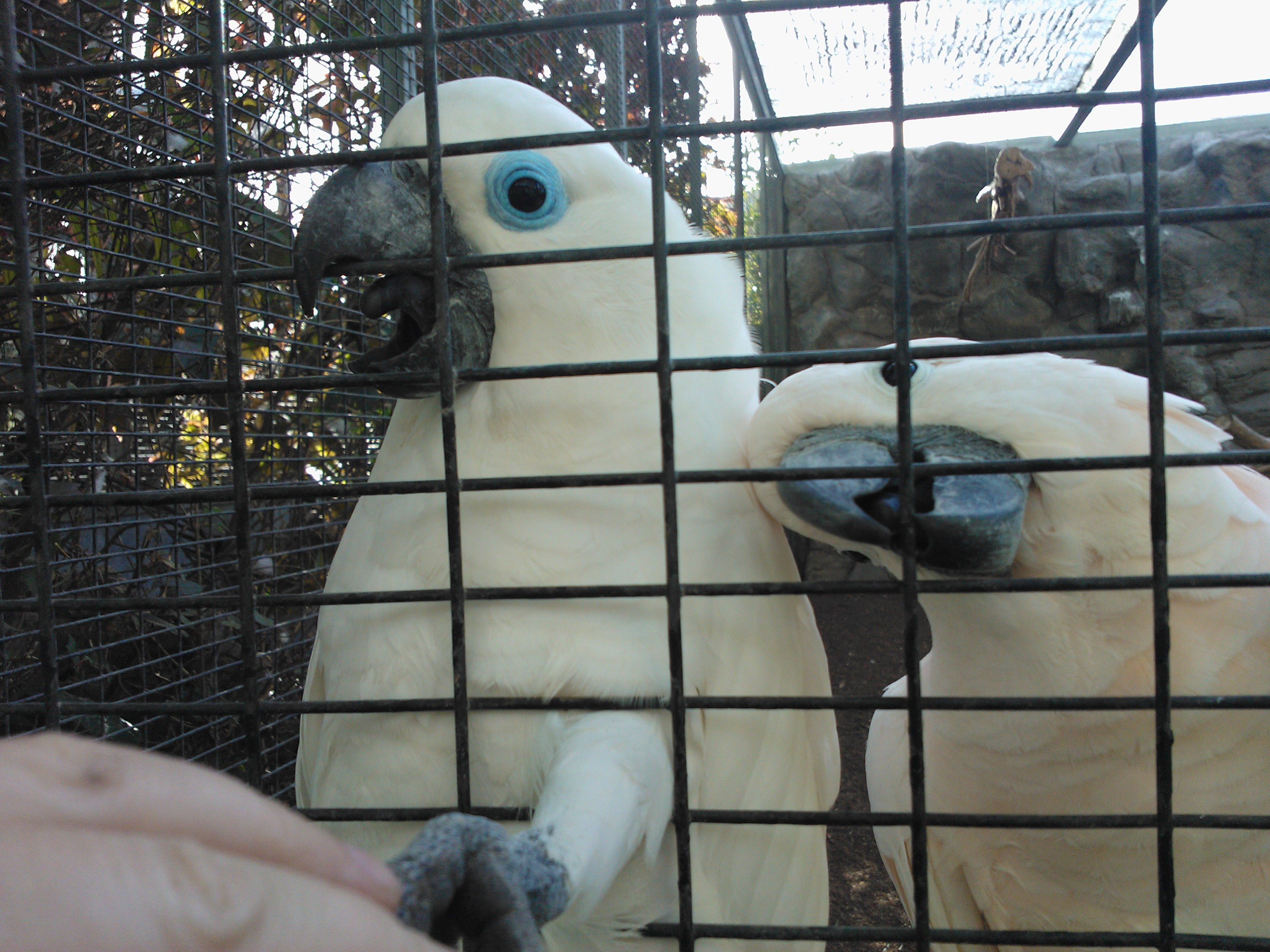 Birds at Loro Parque